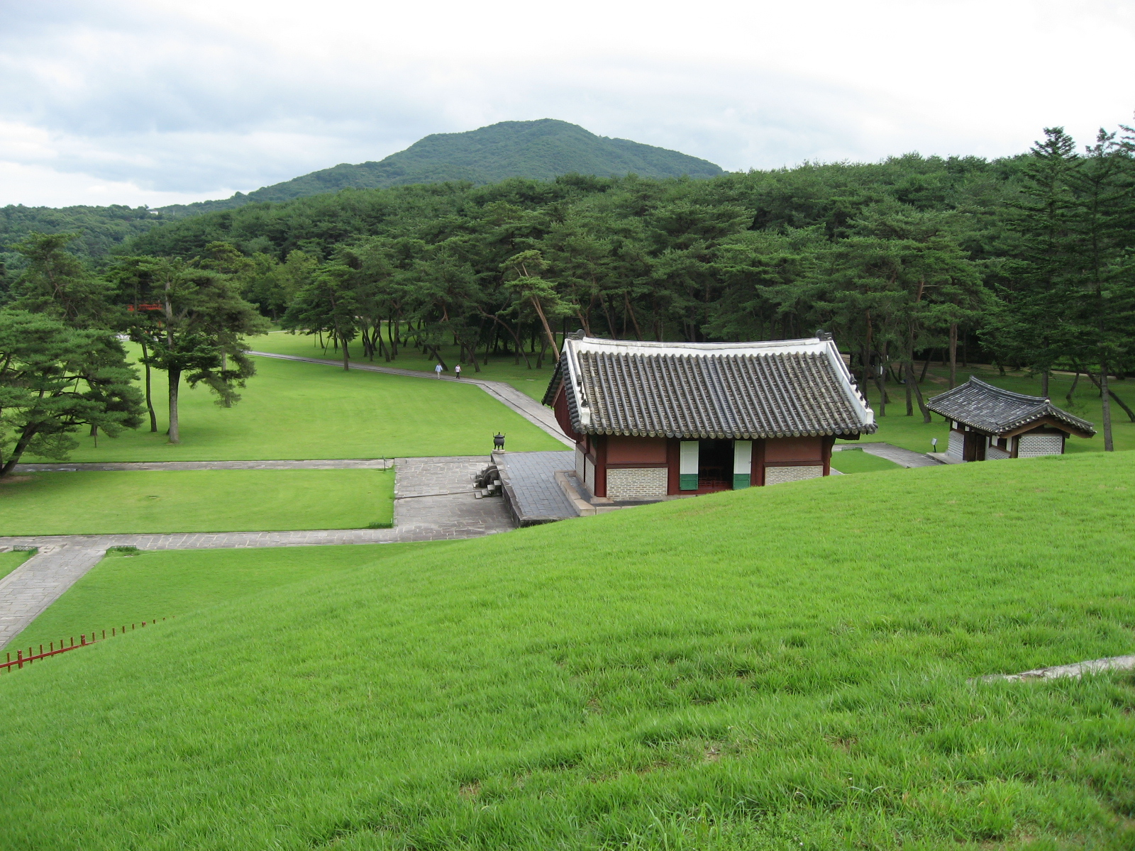 The tomb of King Sejong the Great of Joseon.